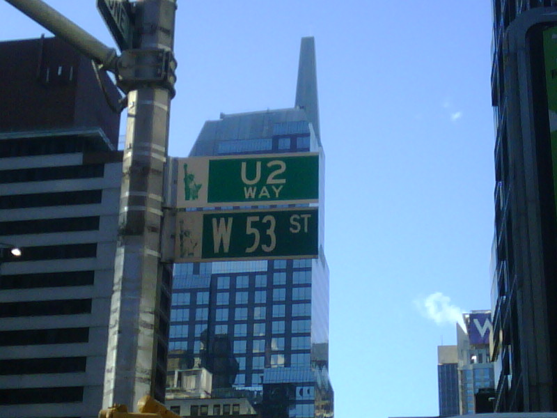 Street sign of 53rd Street in New York City, renamed "U2 Way" after Irish band U2